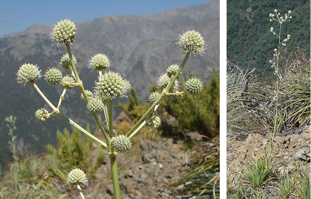 Tall and unusual, known locally as Chupalla in the southern Andes. In context at